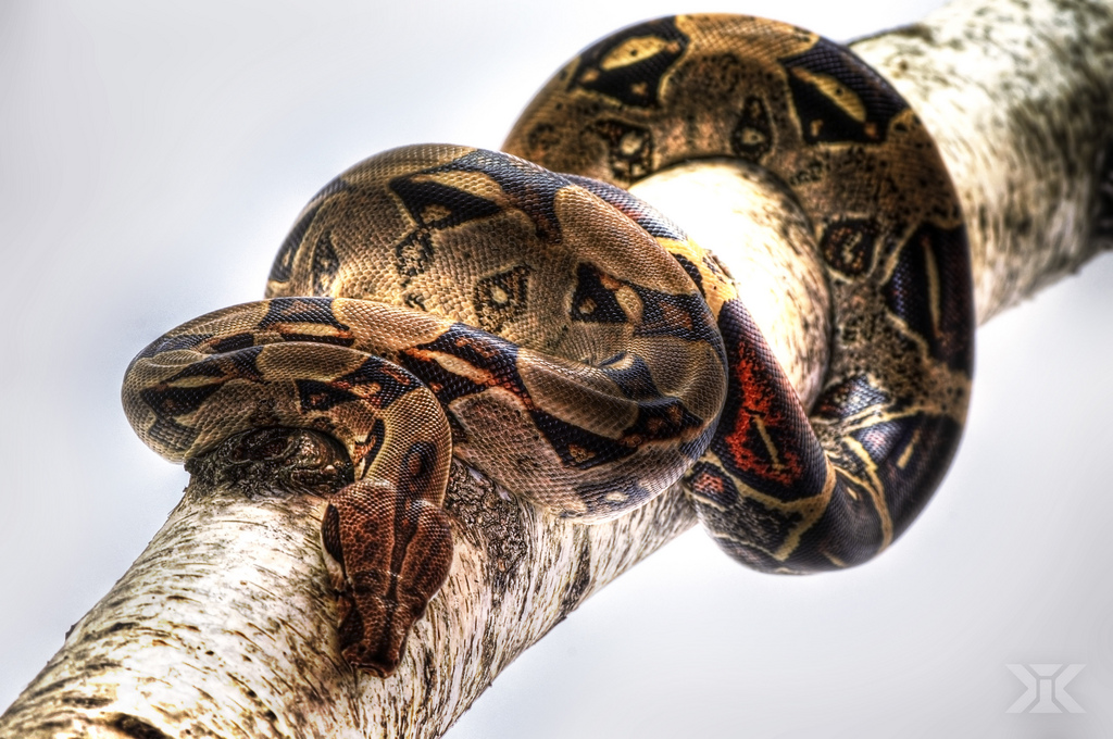 Python regius on a branch